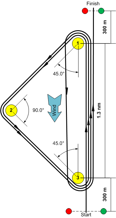 Fin and 470 Course Map of the 1984 Olympic Games